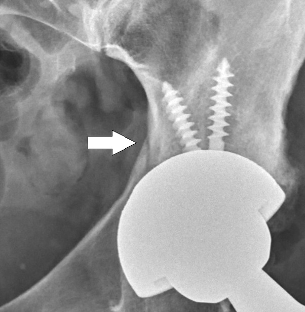 X-ray after hip replacement in a 59 year old woman who had hip osteoarthritis. It shows an intraoperative fracture of the acetabulum. The patient was advised to restrict weight-bearing to 20kg for the first 6 weeks.